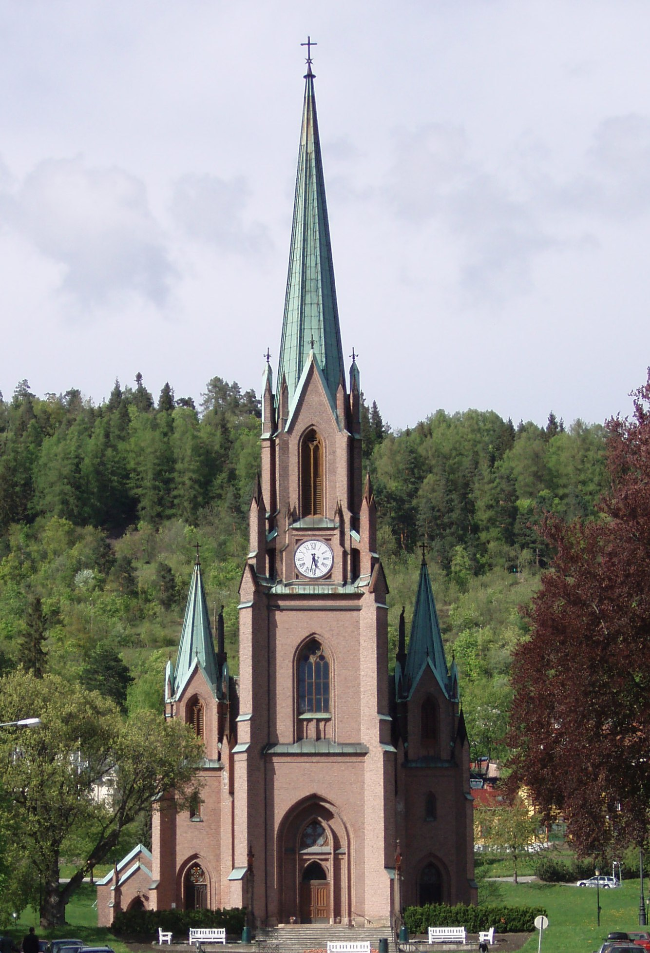 Bragernes church, Drammen, Norway, Picture taken May 25, 2006 by the uploader (Mr Ståle Johnsen, user:Guaca)